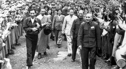 April 1951 in Chongqing, Deng Xiaoping and the people of Chongqing welcome Ngapoi Ngawang Jigme and other deputies of the local government of Tibet to go to Beijing.